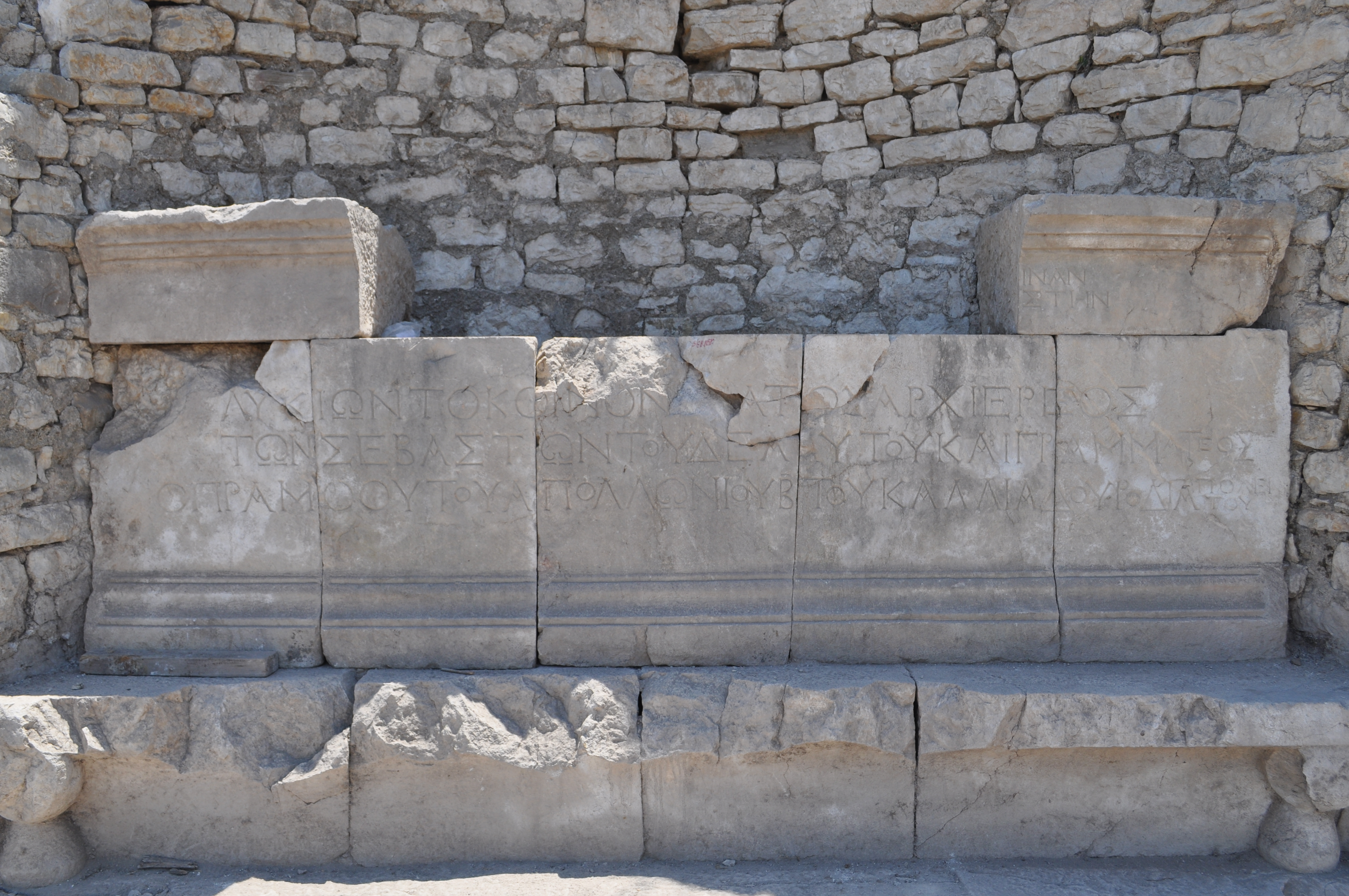 An inscription from Opramoas in Rhodiapolis, an ancient Greek city now in Turkey.